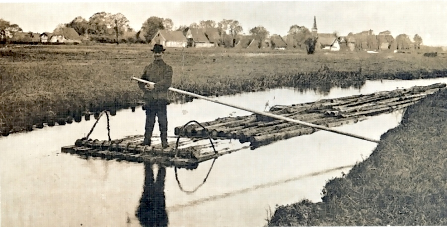 Wilhelm Witte, one of the last rafters on the River Örtze. Lower Saxony, Germany